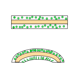 pulvinus in extended and contracted positions